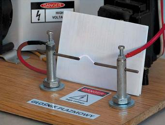 Plasma speaker